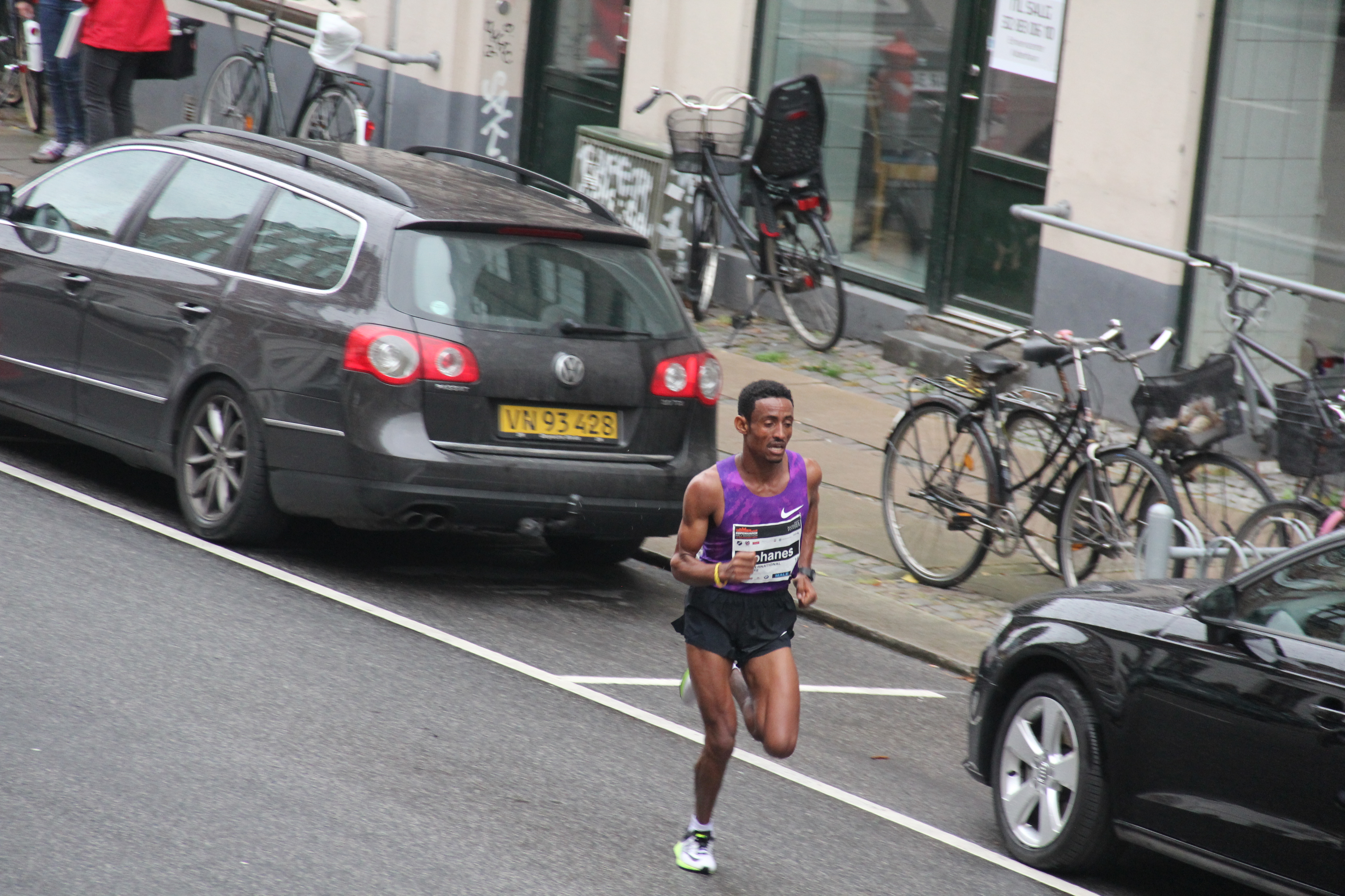 Half marathon Sep 13 2015 at 19.5 km Yohanes Ghebregergis